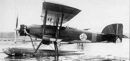 Norwegian Høver M.F.11 (Norwegian reg. no. F.336) military seaplane after it was confiscated by Finnish authorities 8 June, 1940. In Finnish service it was designated NK-172 and flew for 368 hours, 45 minutes for the Finnish Air Force. (Info from Kjæraas, Arild (ed.): Profiles in Norway no. 2: Høver M.F. 11, Profiles in Norway, Andebu 2003 (English & Norwegian text)